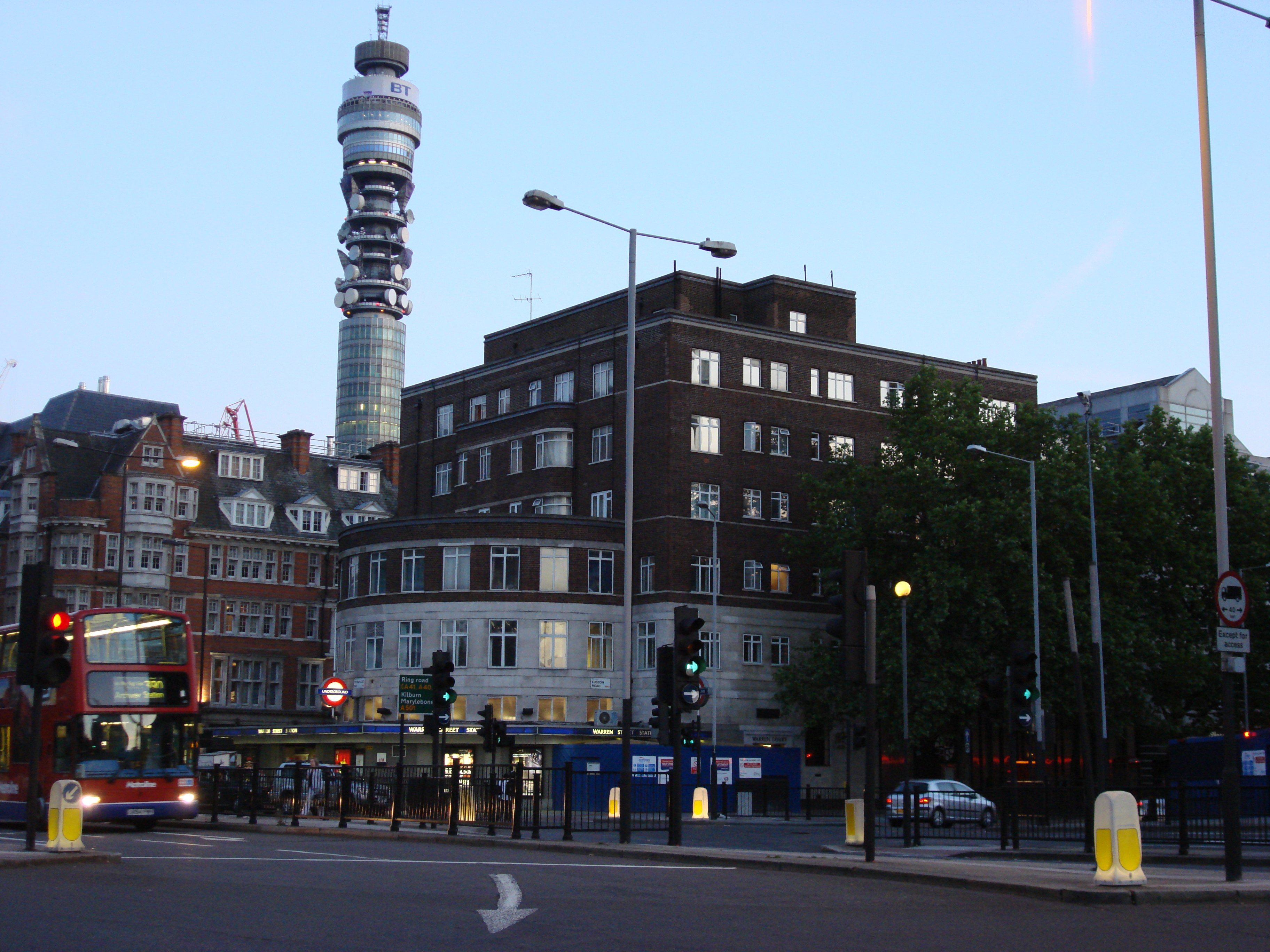 Warren Street Station with the BT Tower in the background